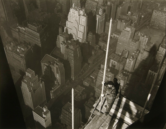 "Raising the Mast, Empire State Building," photograph, silver print, by the American photographer Lewis W. Hine. 10 1/2 in. x 13 7/16 in. Yale University Art Gallery, gift of Lisa Rosenblum, B.A. 1975. Courtesy of Yale University, New Haven, Conn.